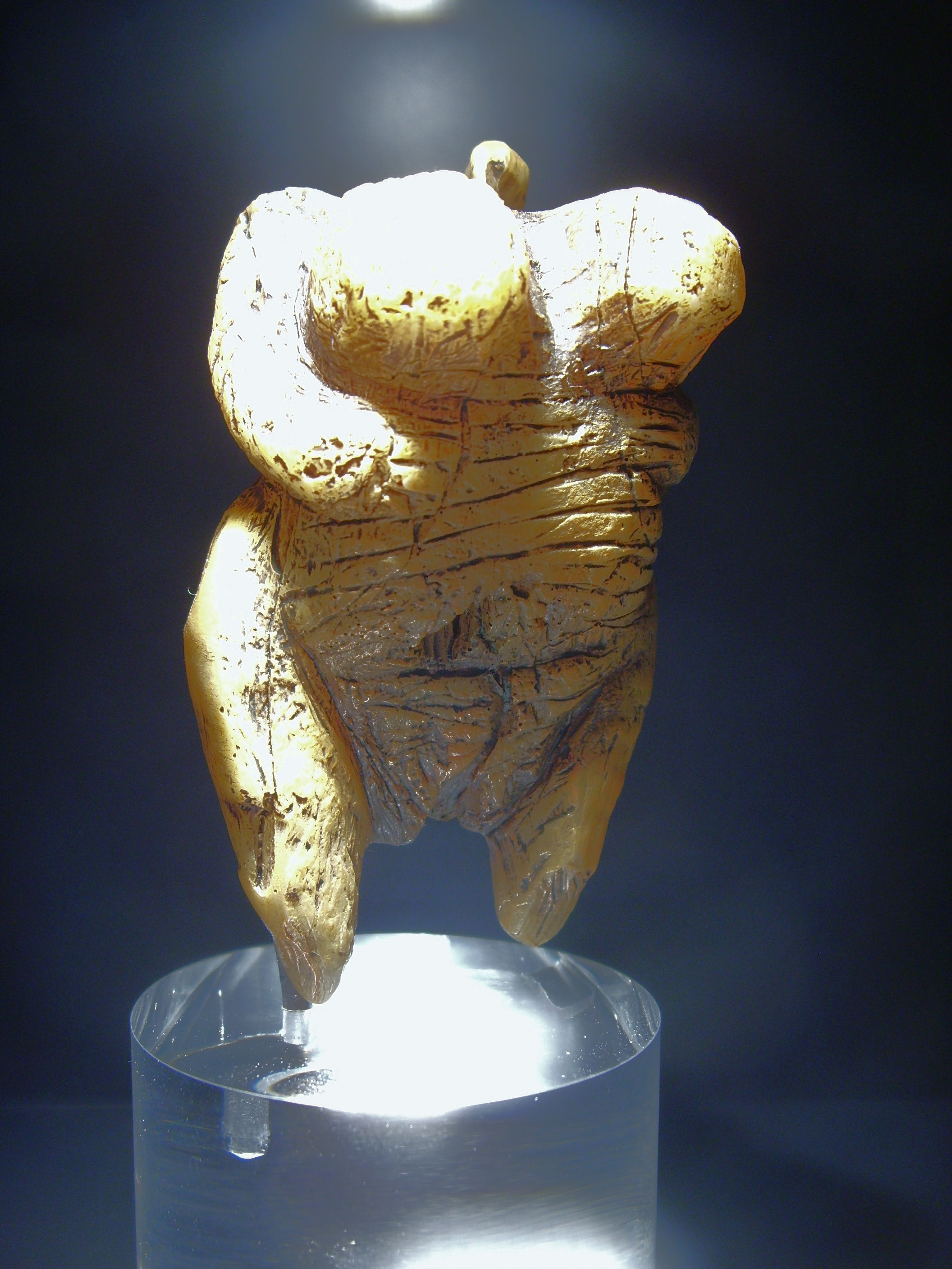 Stereolithography: The "Venus of Hohle Fels" is a Venus figurine approximately six centimeters tall and carved from mammoth ivory. It was discovered in September 2008 during excavations in the cave Hohler Fels at the southern foot of the Swabian Alps near Schelklingen. It was created ca. 35,000 years ago and is thus the oldest known representation of a human being.